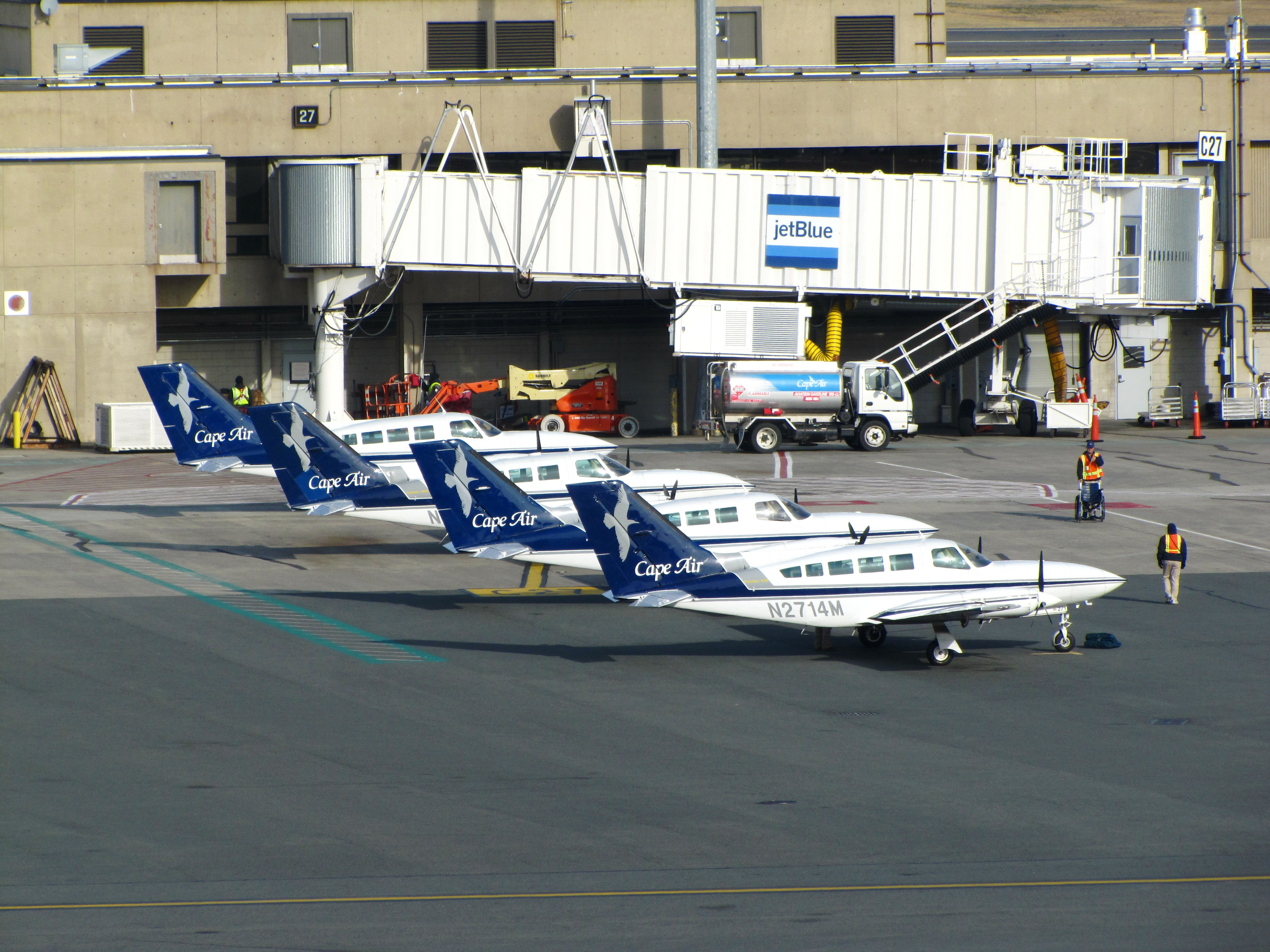 Cape Air Cessna 402 General Edward Lawrence Logan International Airport